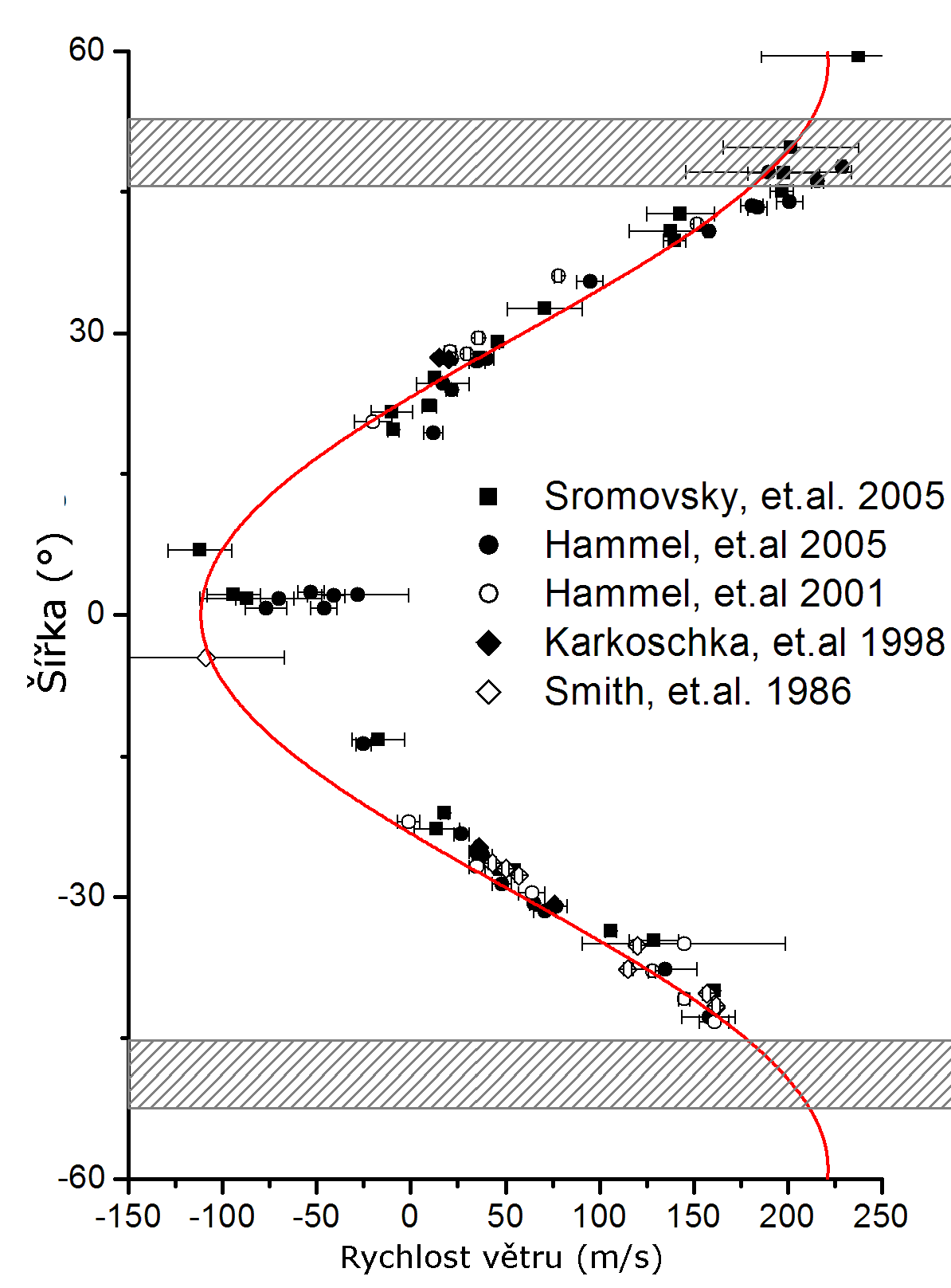 The figure shows zonal winds on Uranus as listed in. (Shaded areas show southern collar and its future northern counterpart. The red curve is a symmetrical fit from Sromovsky et.al 2005.) Hammel, H.B.; Rages, K.; Lockwood, G.W.; et.al. (2001). "New Measurements of the Winds of Uranus". Icarus 153: 229-235. (Table II), in the figure Smith et.al. 1986, Karkoschka et.al.1998, Hammel et.al.2001. Hammel, H.B.; de Pater, I.; Gibbard, S.; et.al. (2005). "Uranus in 2003: Zonal winds, banded structure, and discrete features" (pdf). Icarus 175: 534-545. (Table 3), in the figure Hammel et.al. 2005) Sromovsky, L.A.; Fry, P.M. (2005). "Dynamics of cloud features on Uranus". Icarus 179: 459-483. (Table 7), in the figure Sromovsky et.al 2005